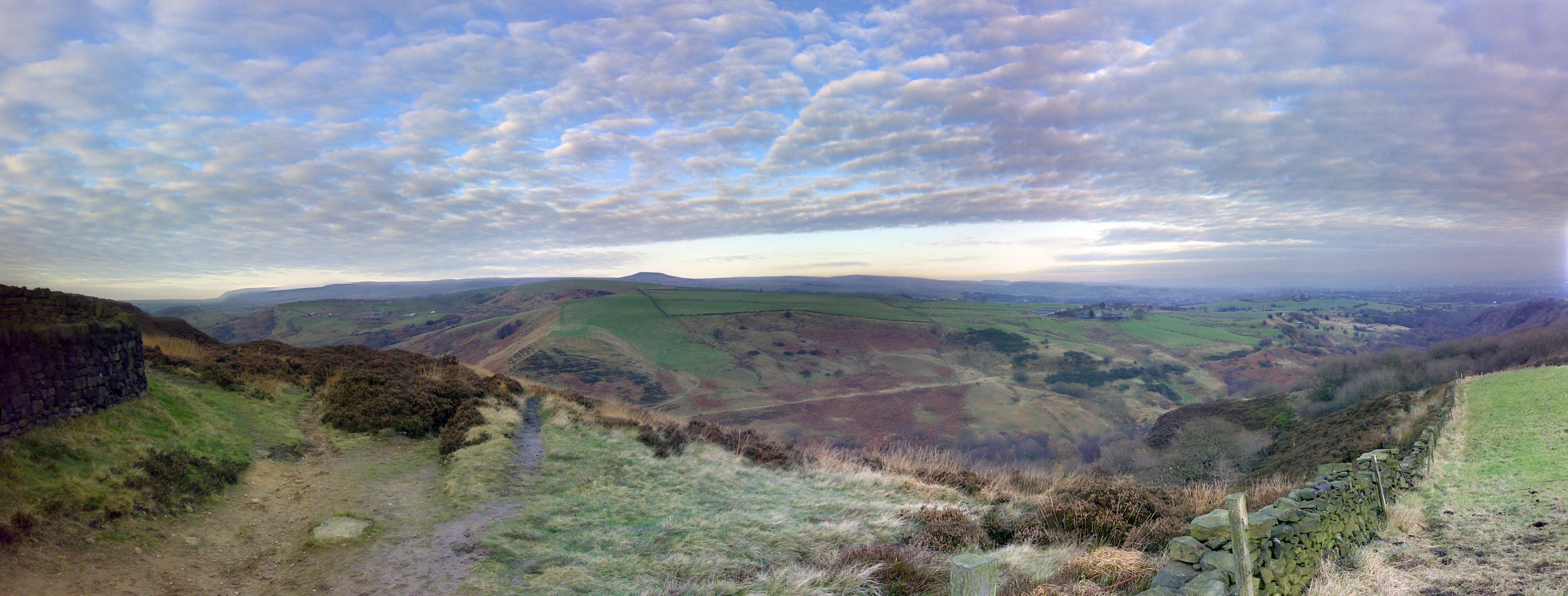 Looking down on the Cheesden Valley. Rochdale is to the right.